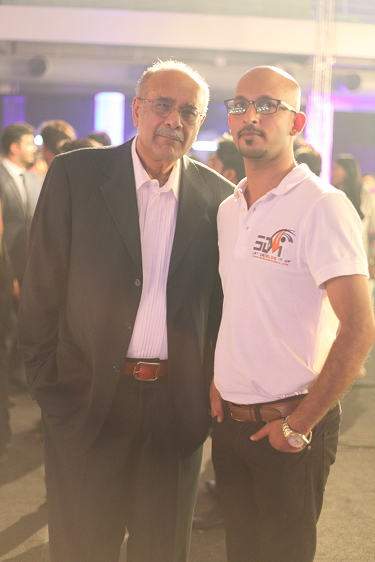 Pakistan Super League Launch #PSLt20 Cricket #AbkhelKDikha Najam Sethi & Umer Toor